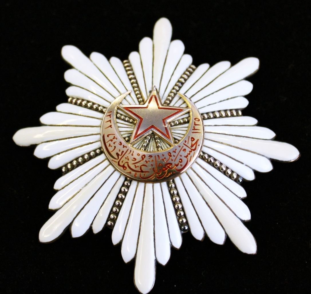 The Order of the Ottoman Chamber of Deputies.